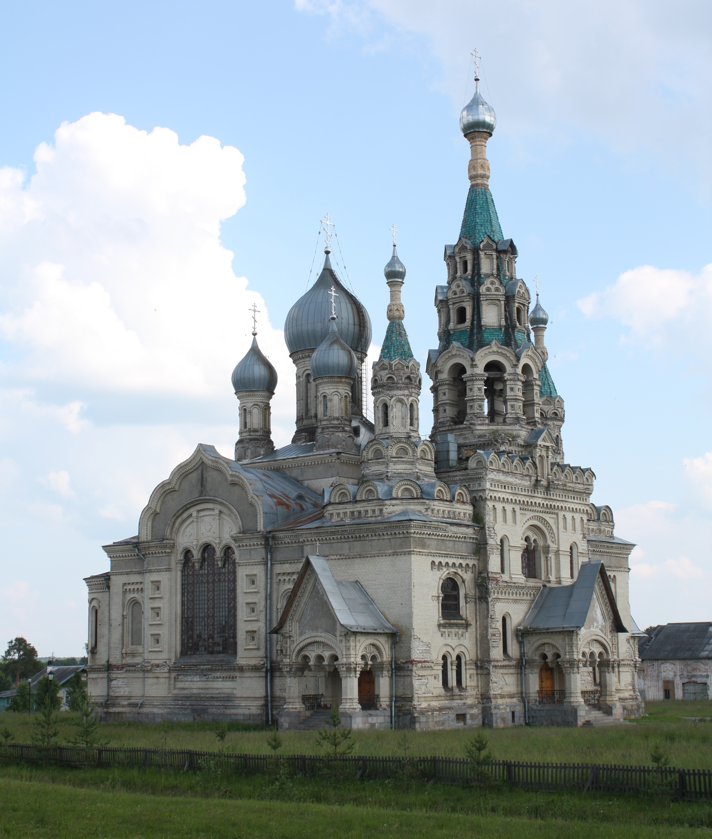 Orthodox temple in village Kukoboy (Yaroslavl Oblast, Russia)